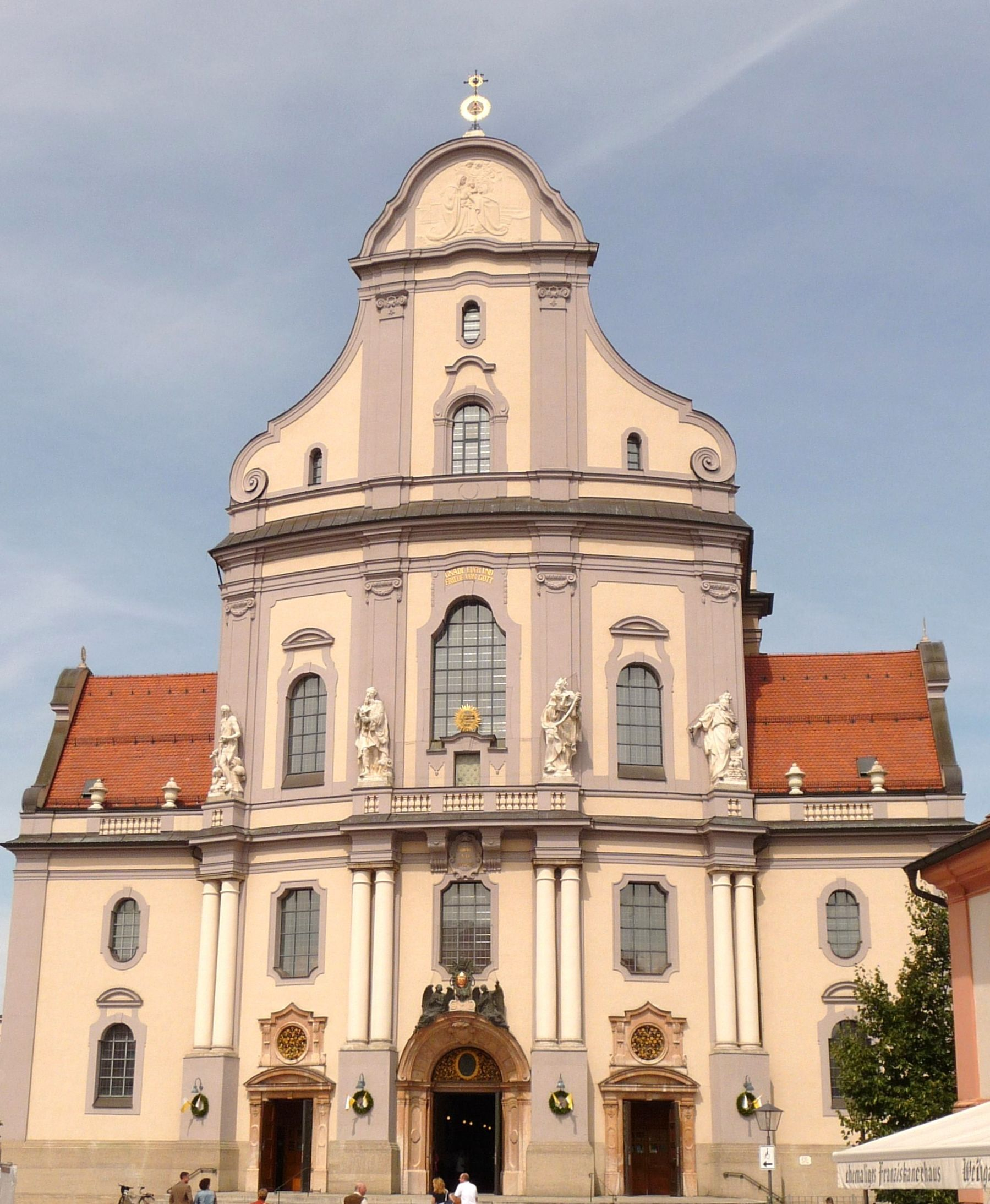 Altötting, St Anne's Basilica. South-eastern facade facing Bruder-Konrad-Platz.